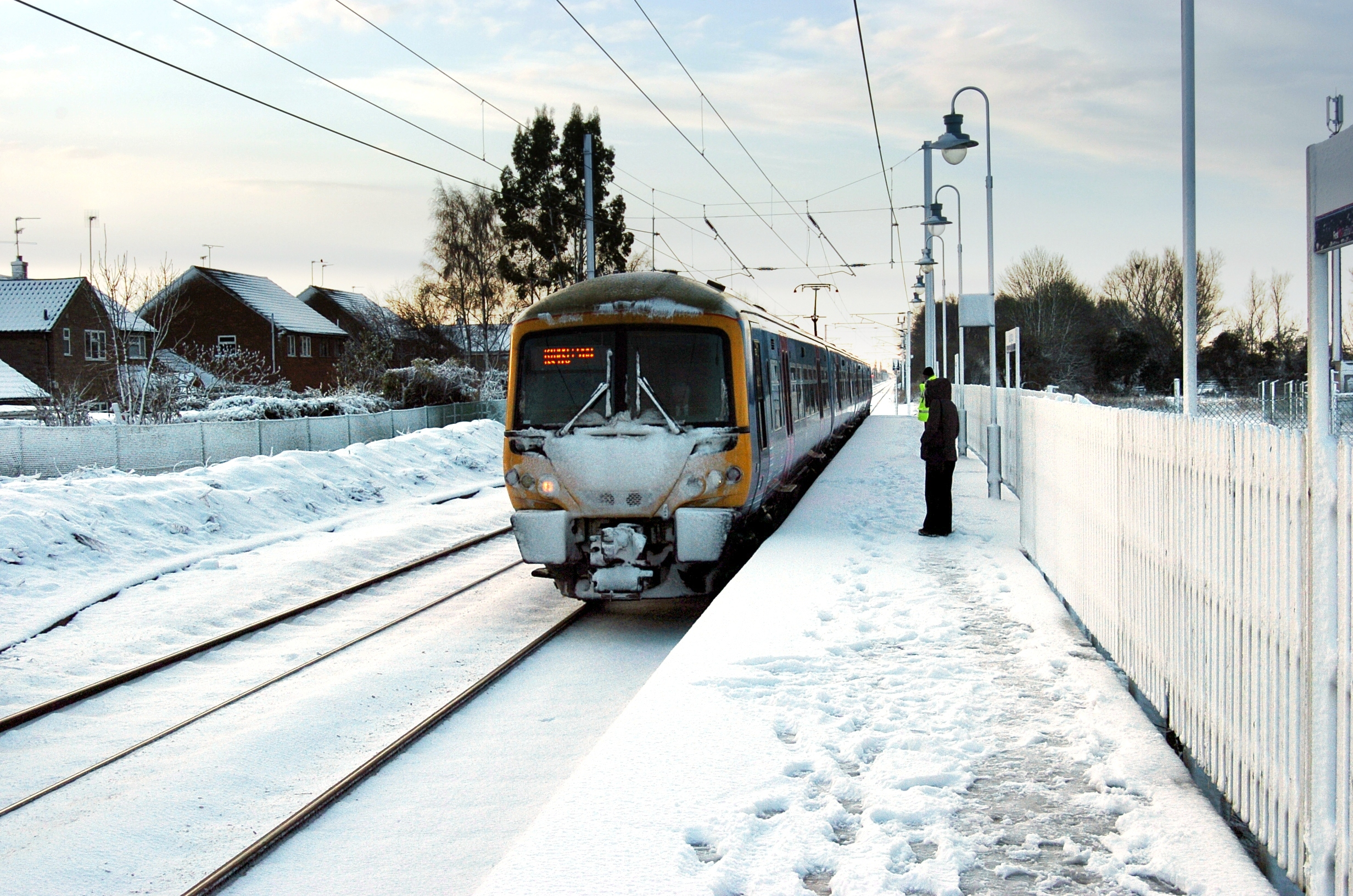 An unidentified Class 365, front covered in snow, pulls into Watlington railway station with a service to King's Lynn.